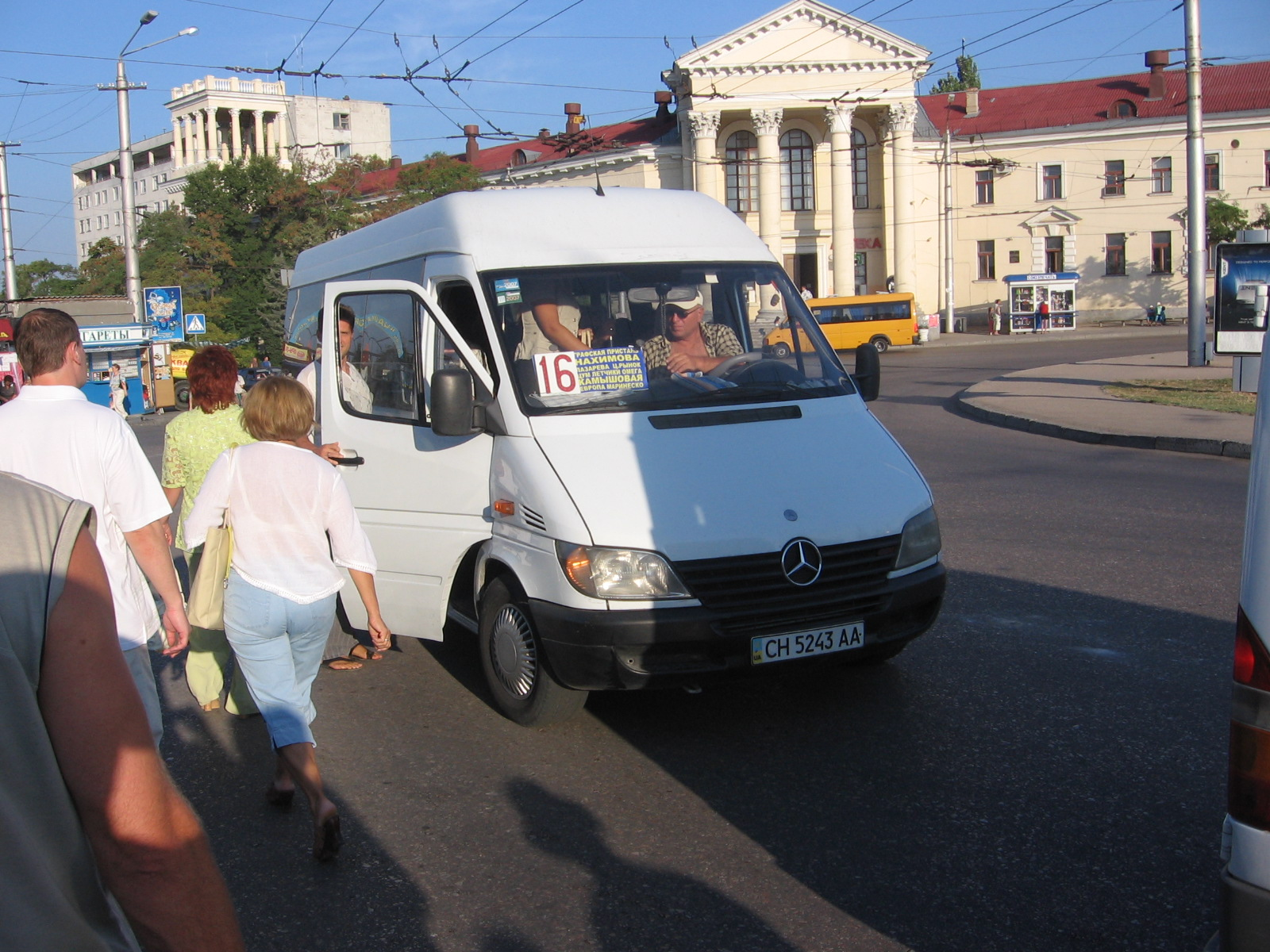 Marshrutka the 16 in Sevastopol at the stop on Vosstavshikh Square.